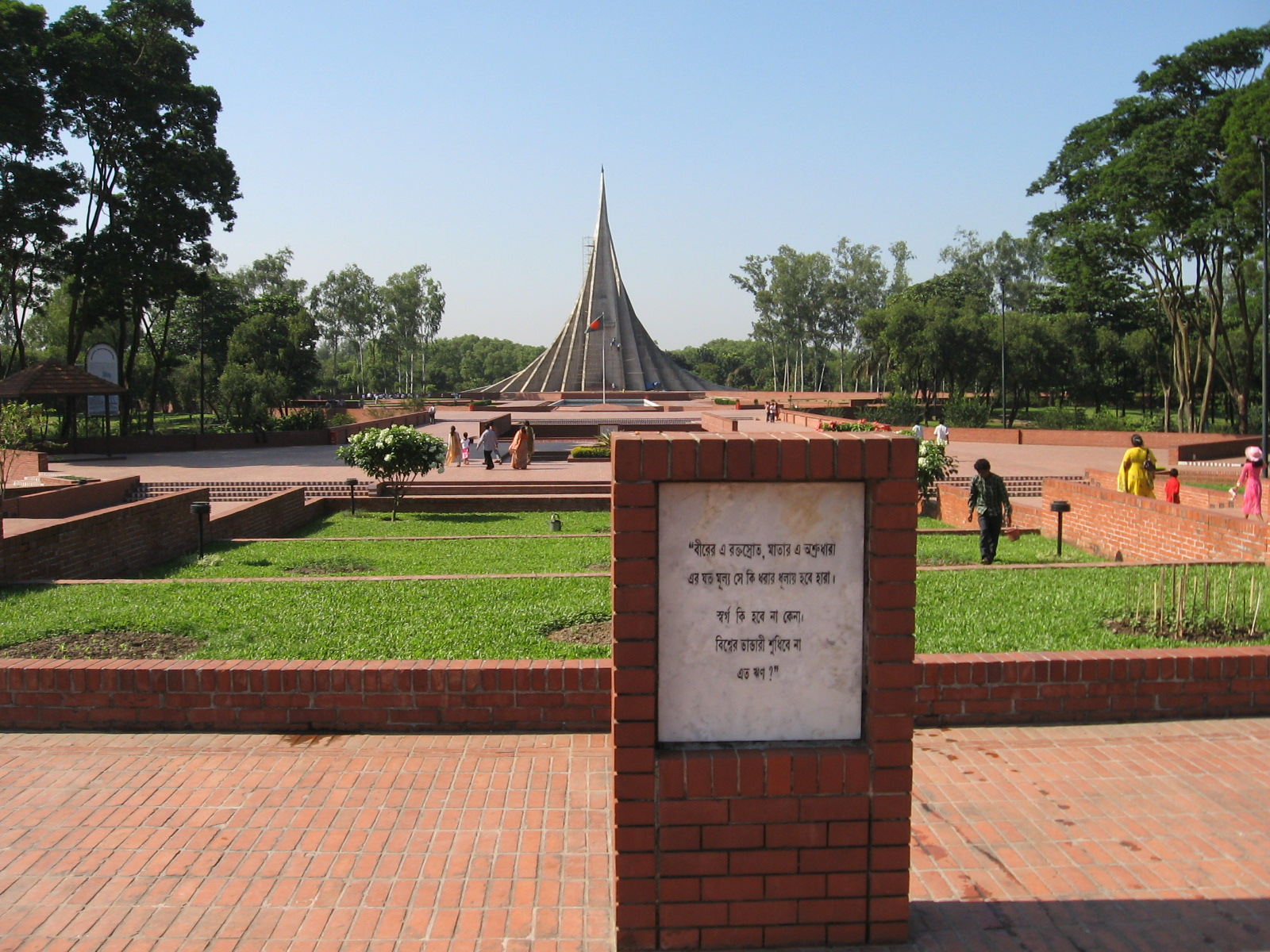 Jatiyo Smriti Soudho or National Martyrs' Memorial, Savar, Bangladesh